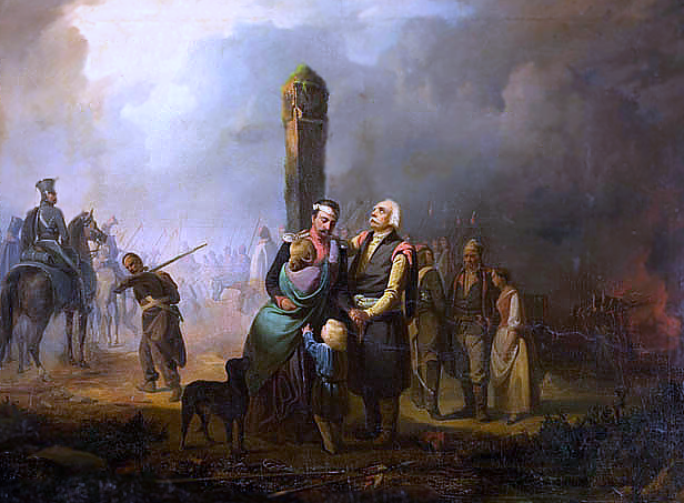 "Poles crossing the Prussian frontier", oil on canvas; donated to the National Museum of Cracow in 1893 by widow of Bolesław Starzyński